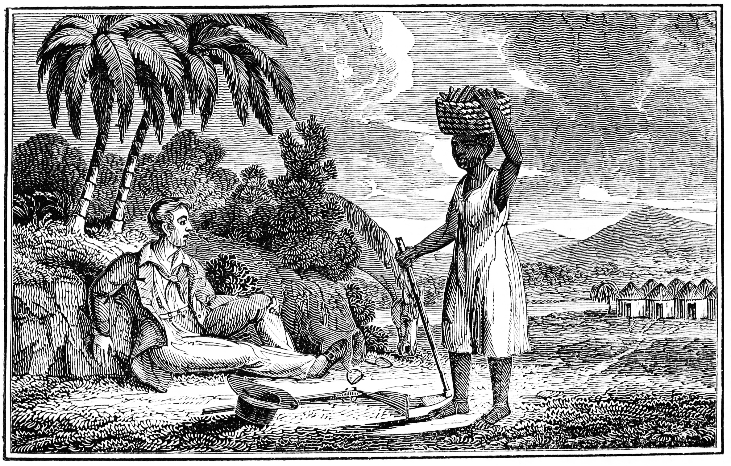 Mungo Park with an African woman "in Sego, in Bambara" and illustration from An Appeal in Favor of that Class of Americans Called Africans, p190